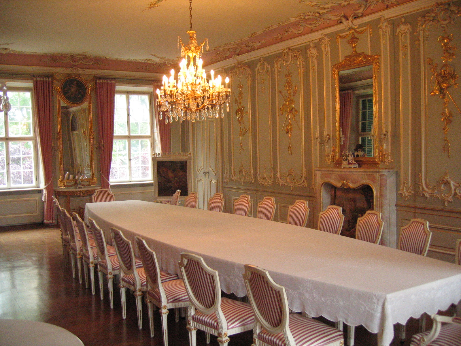 Hüffe Castle in Preußisch Oldendorf, District of Minden-Lübbecke, North Rhine-Westphalia, Germany.